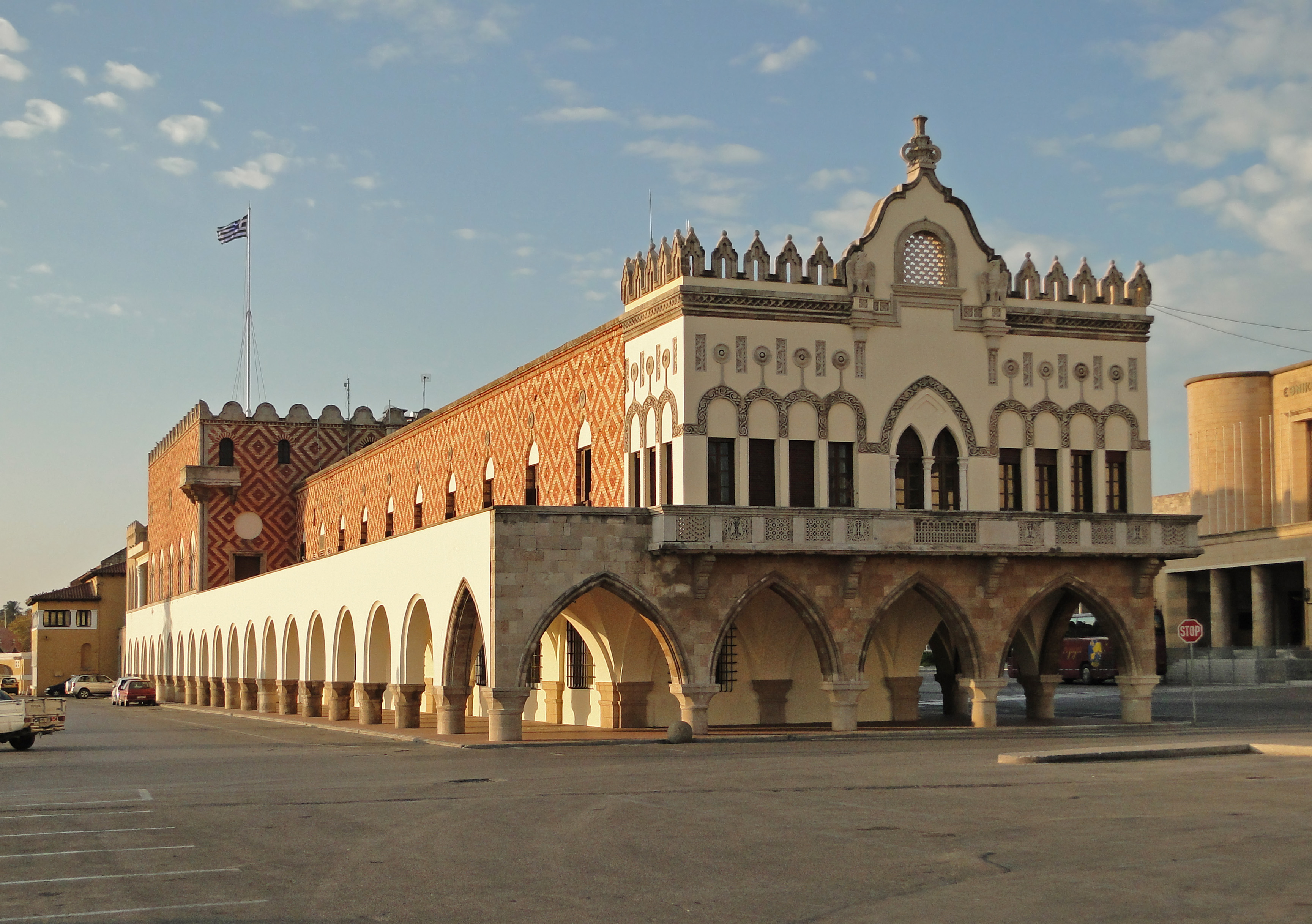 Offices of the Prefecture of the Dodecanese, former Palazzo del Governatore, in Rhodes, Greece